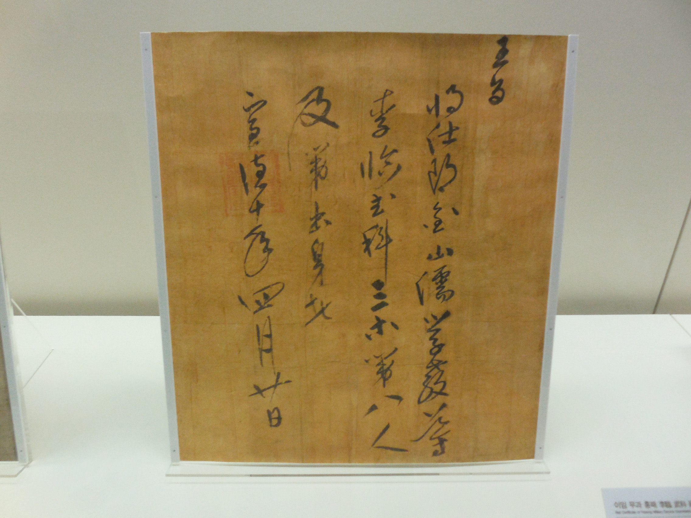 Red Certificate of passing military service examination issued to Yi Im.